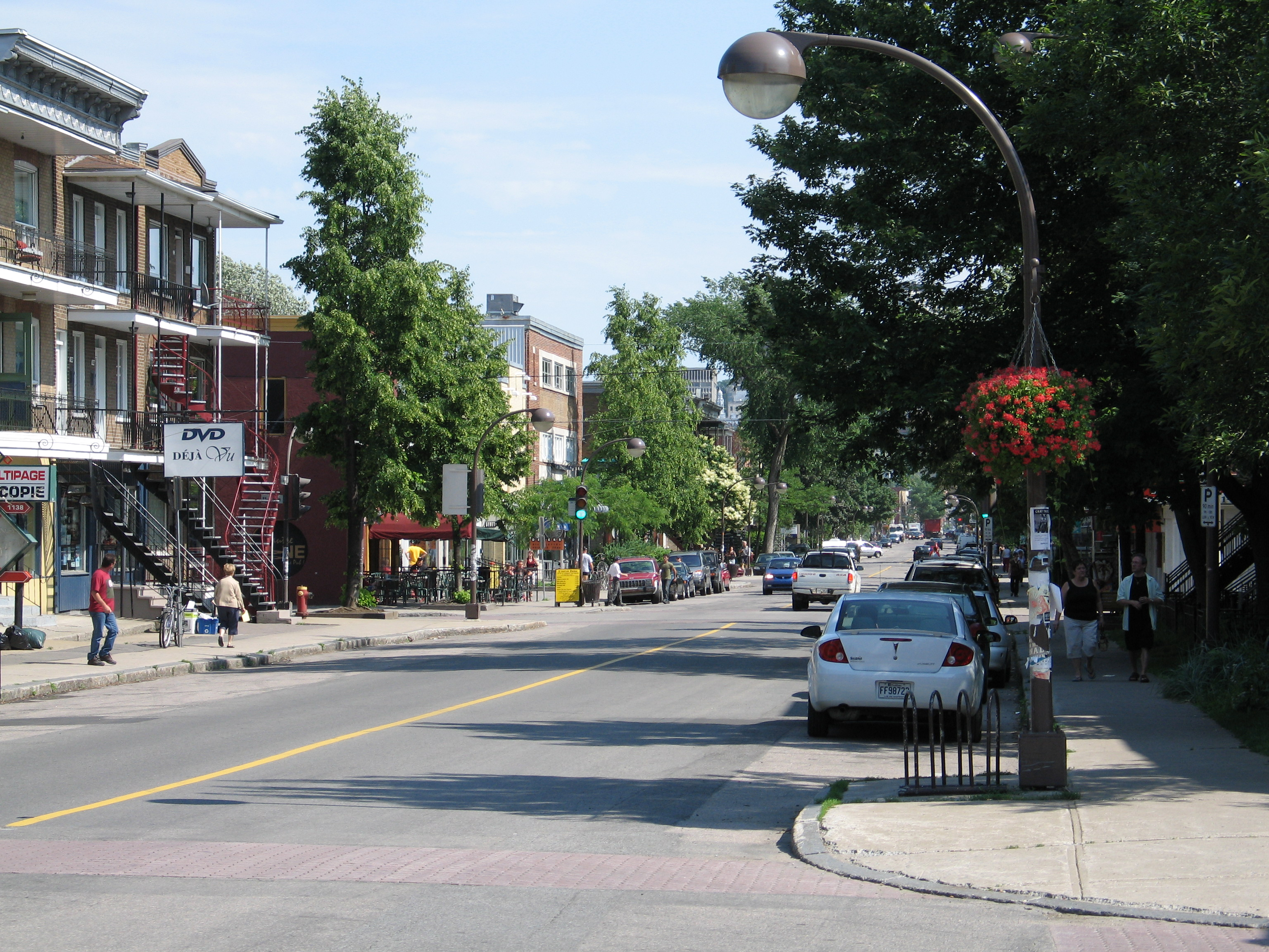 Third avenue in La Cité–Limoilou, Quebec City.